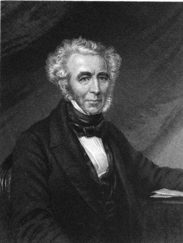 Portrait of James William Gilbart (1794–1863), English banker and author.